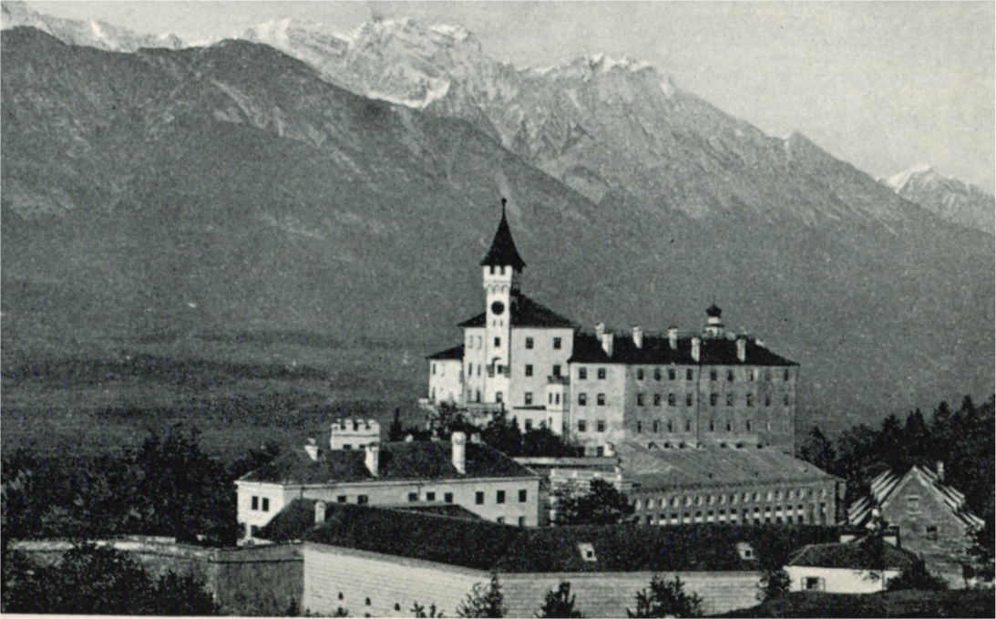 Schloss Ambras (Ambras castle) in Innsbruck